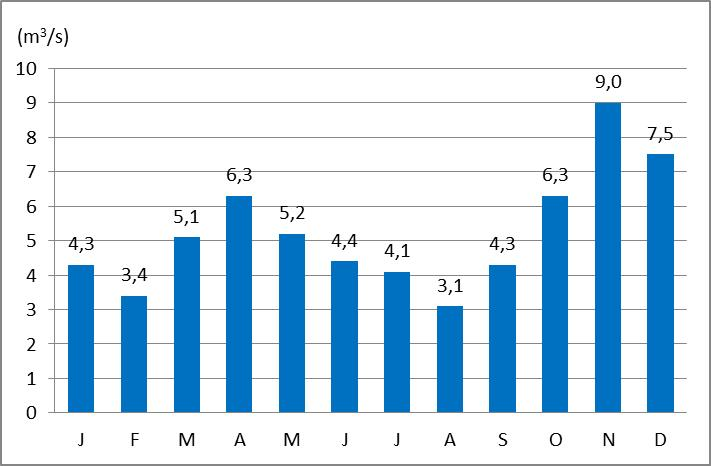 Average monthly discharges of Kokra River at the gauging station Kranj in 1991–2010